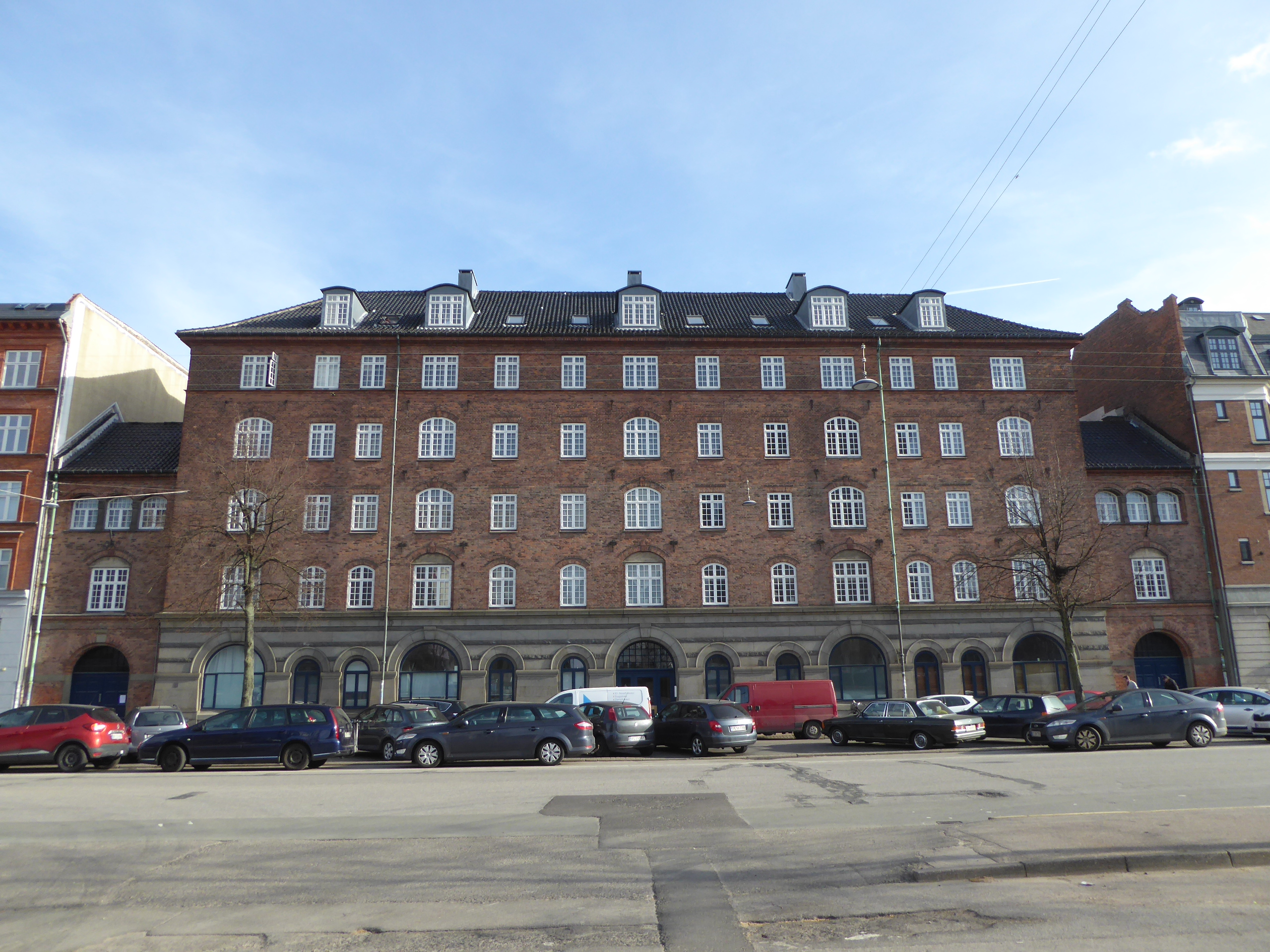 The apartment building Blegdamsgården at Blegdamsvej in Østerbro in Copenhagen.